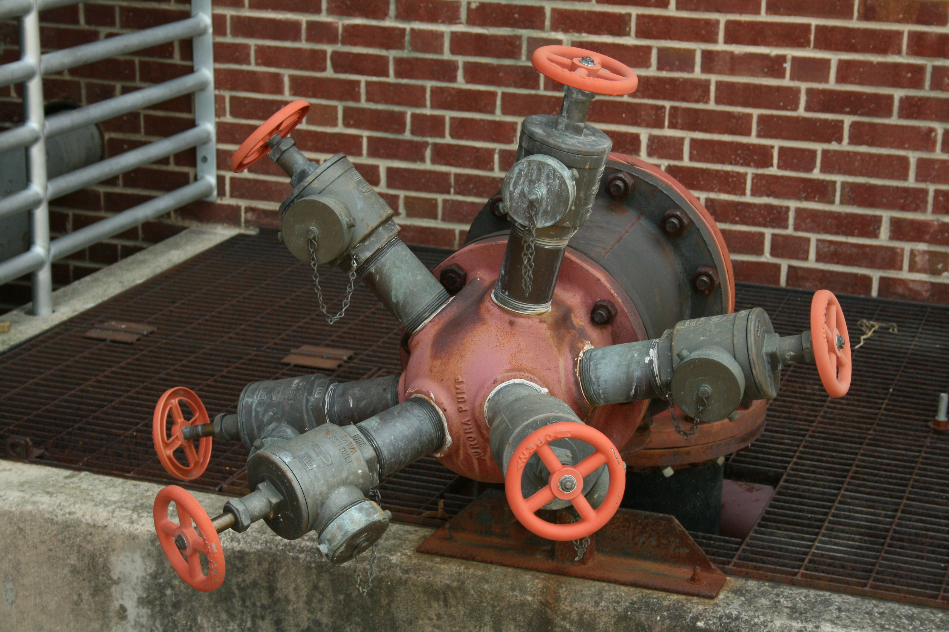 Fire hose connection hub at the North Carolina School of Science and Mathematics.